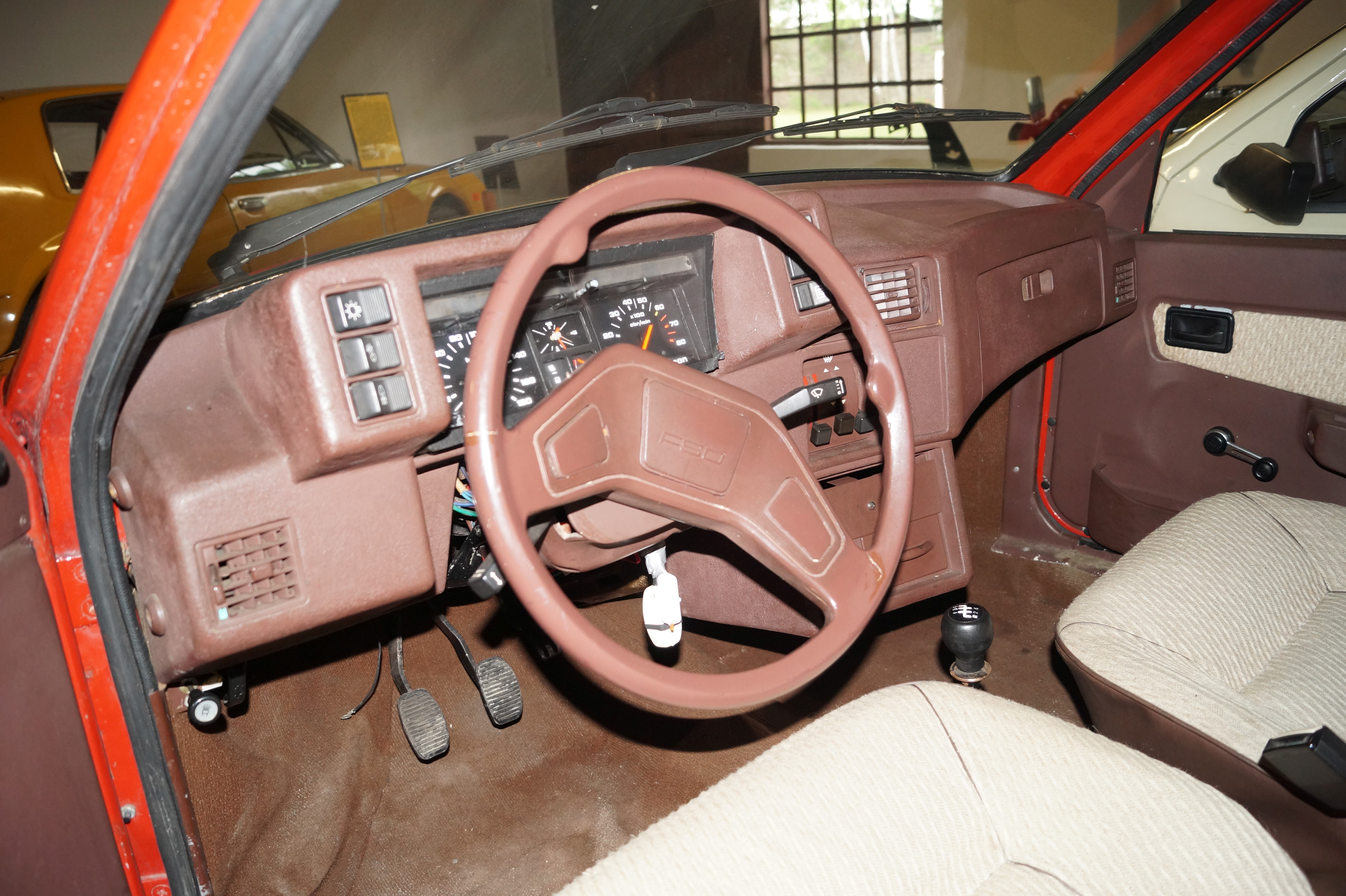 The making of this document was supported by Wikimedia Polska Association, within Wikigrant no. WG 2016-18. English | polski | +/− Wnętrze FSO Wars w Muzeum w Chlewiskach